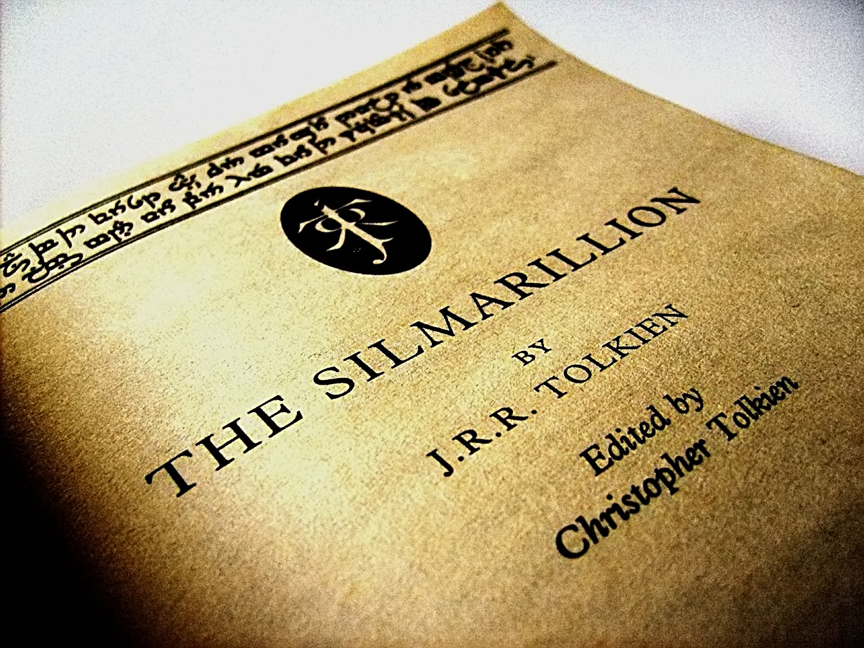 The title page, of the book "The Silmarillion" by J.R.R. Tolkien, edited and published by his son Christopher Tolkien.